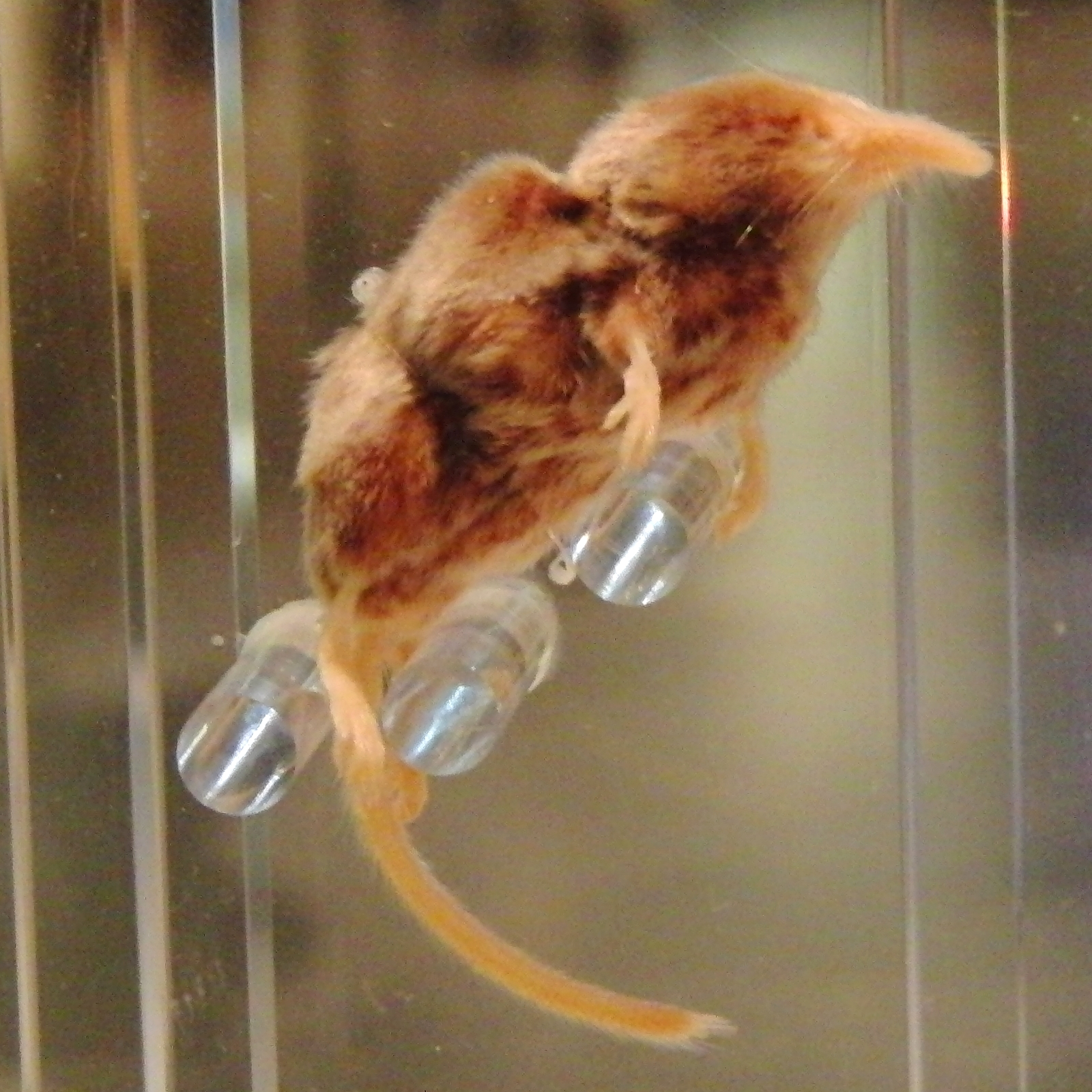 Wet specimen of Sorex minutissimus. Exhibit in the National Museum of Nature and Science, Tokyo, Japan.